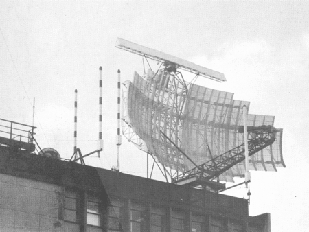 Air traffic control radar antenna at Orly airport, Orly, France. The large parabolic dish is the LP23 primary surveillance radar. The small rectangular antenna above it is the secondary surveillance radar (SSR). It interrogates the transponder on the aircraft, which sends back a coded signal giving the craft's identity and altitude.